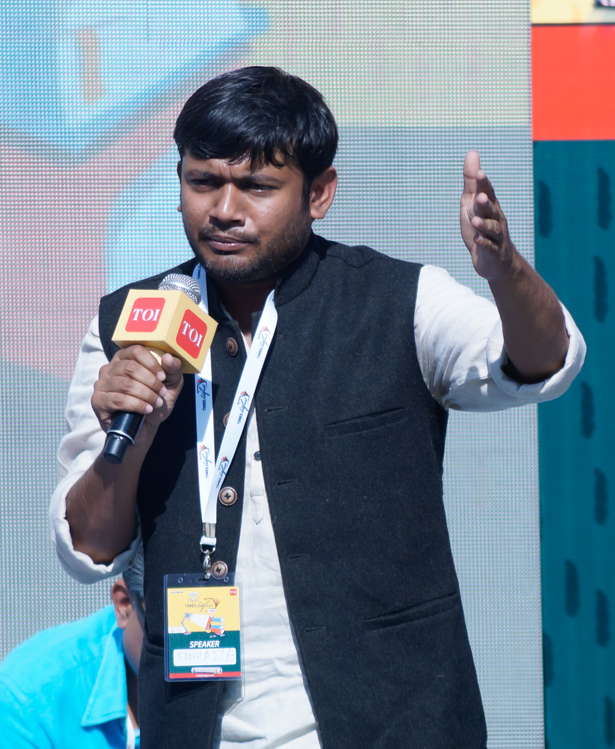 Rana Ayyub at Times Litfest 2016